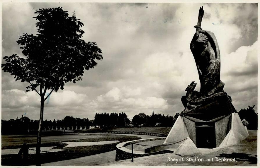 Postcard from 1937. War memorial with the figure of St. Michael by Walther Kniebe, erected in 1932, demolished in 1940, in the Grenzlandstadion in Rheydt.